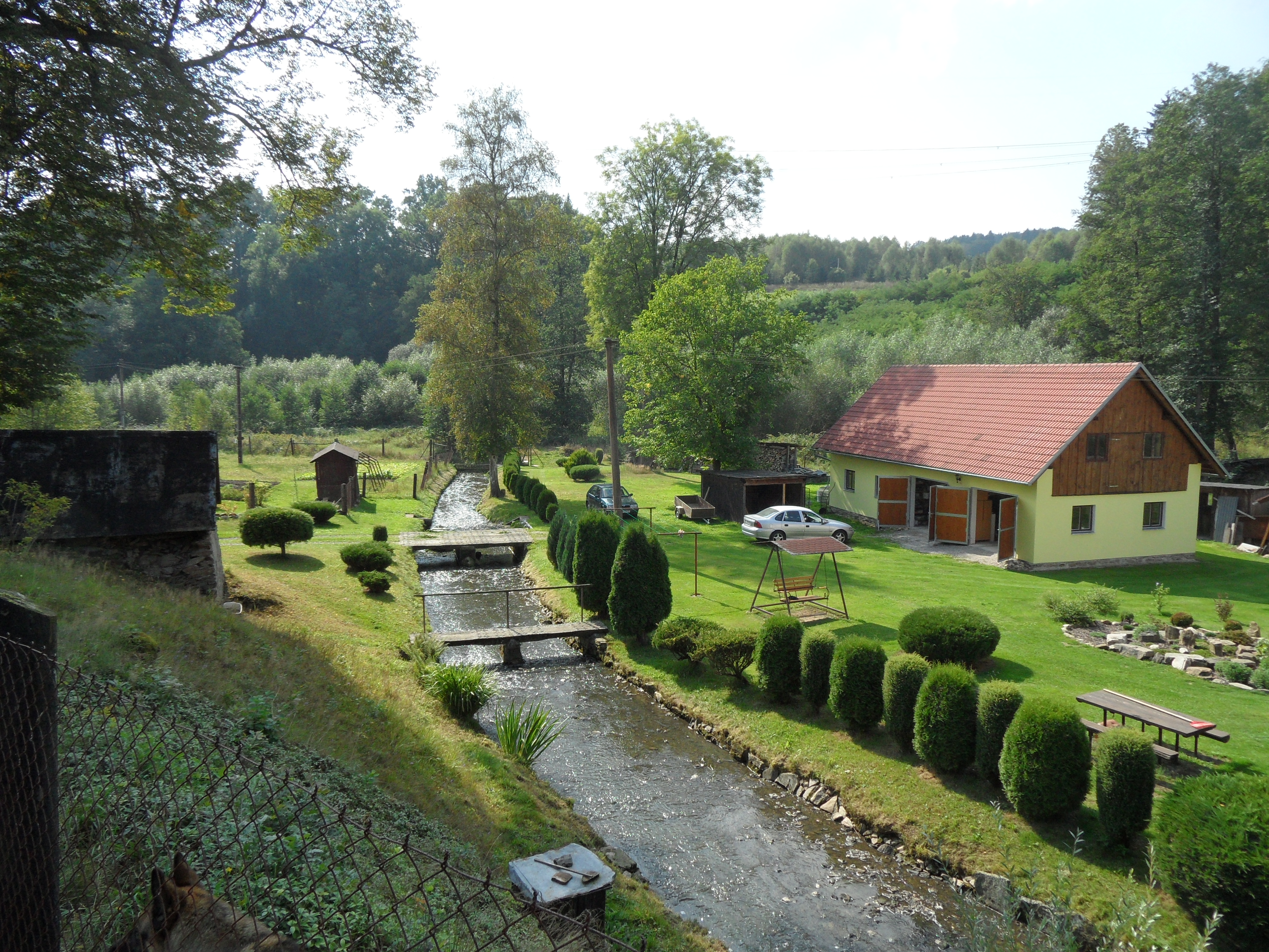 Panský rybník H. Panský Watermill: Garden and Hodkovský Creek, Kutná Hora District, the Czech Republic.